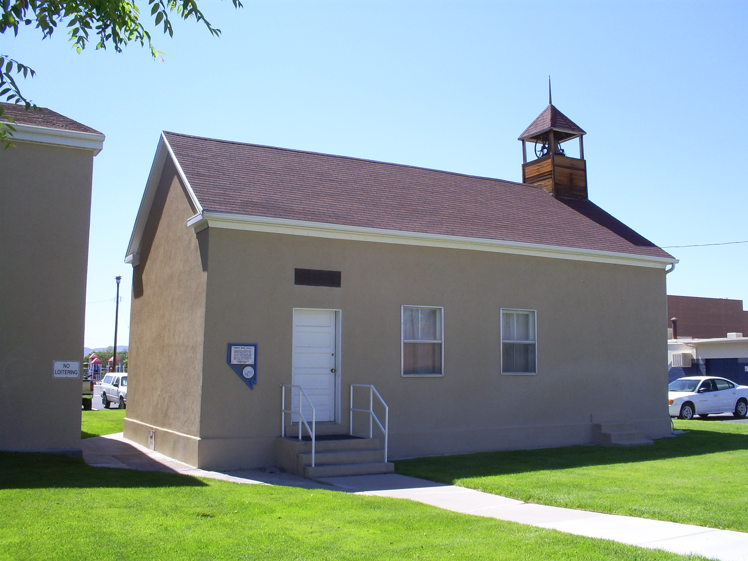 The Panaca Ward Chapel (1867-68), located next to the newer LDS meetinghouse and stake center at 1065 Main Street, Panaca, Nevada. A Nevada State Park System sign to the left of the door identifies this the oldest building in Lincoln County, Nevada. The sign above the door says "Uvada Stake Bishops' Storehouse of The Church of Jesus Christ of Latter-day Saints".